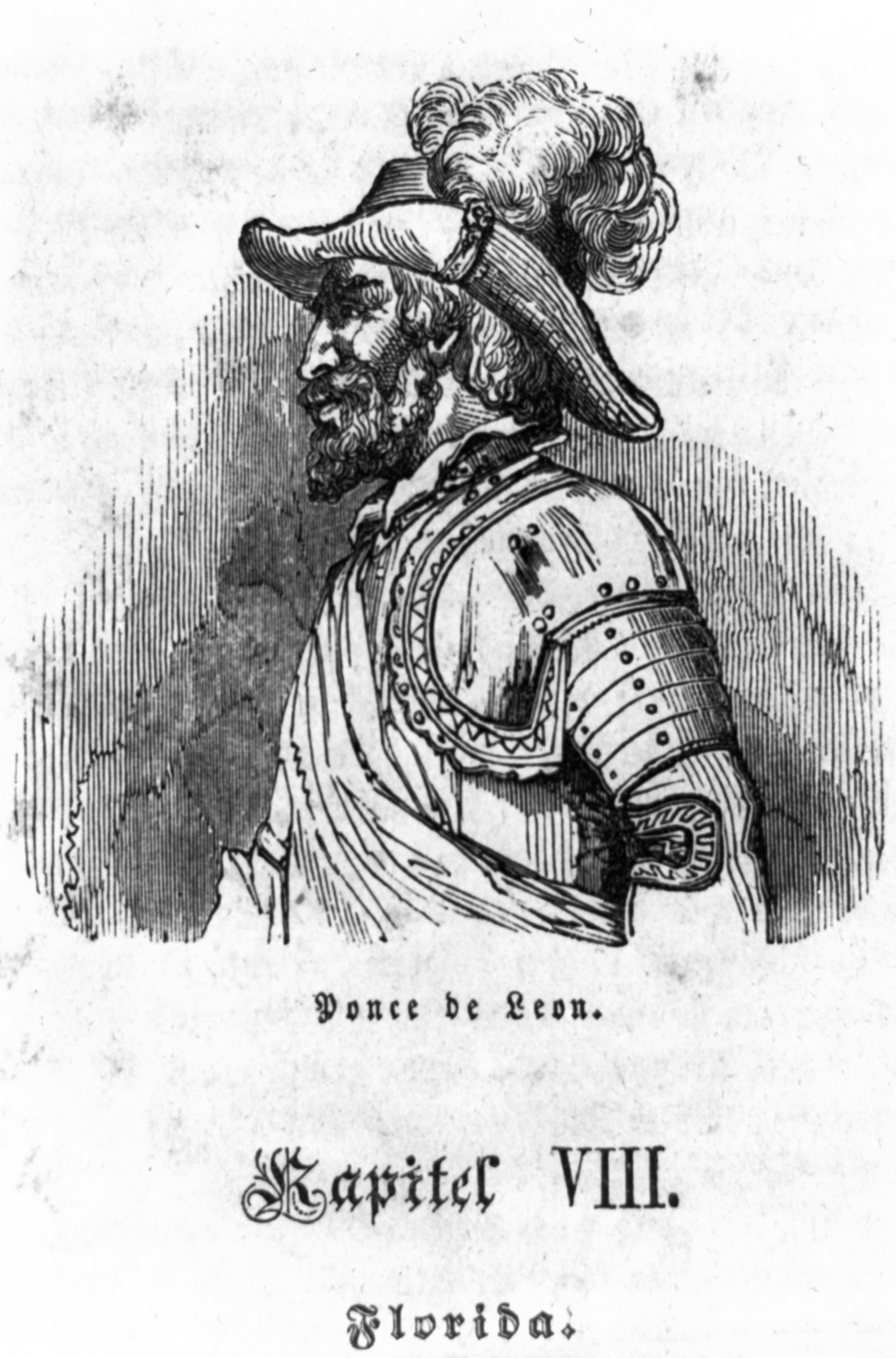 Engraving of Juan Ponce de Leon